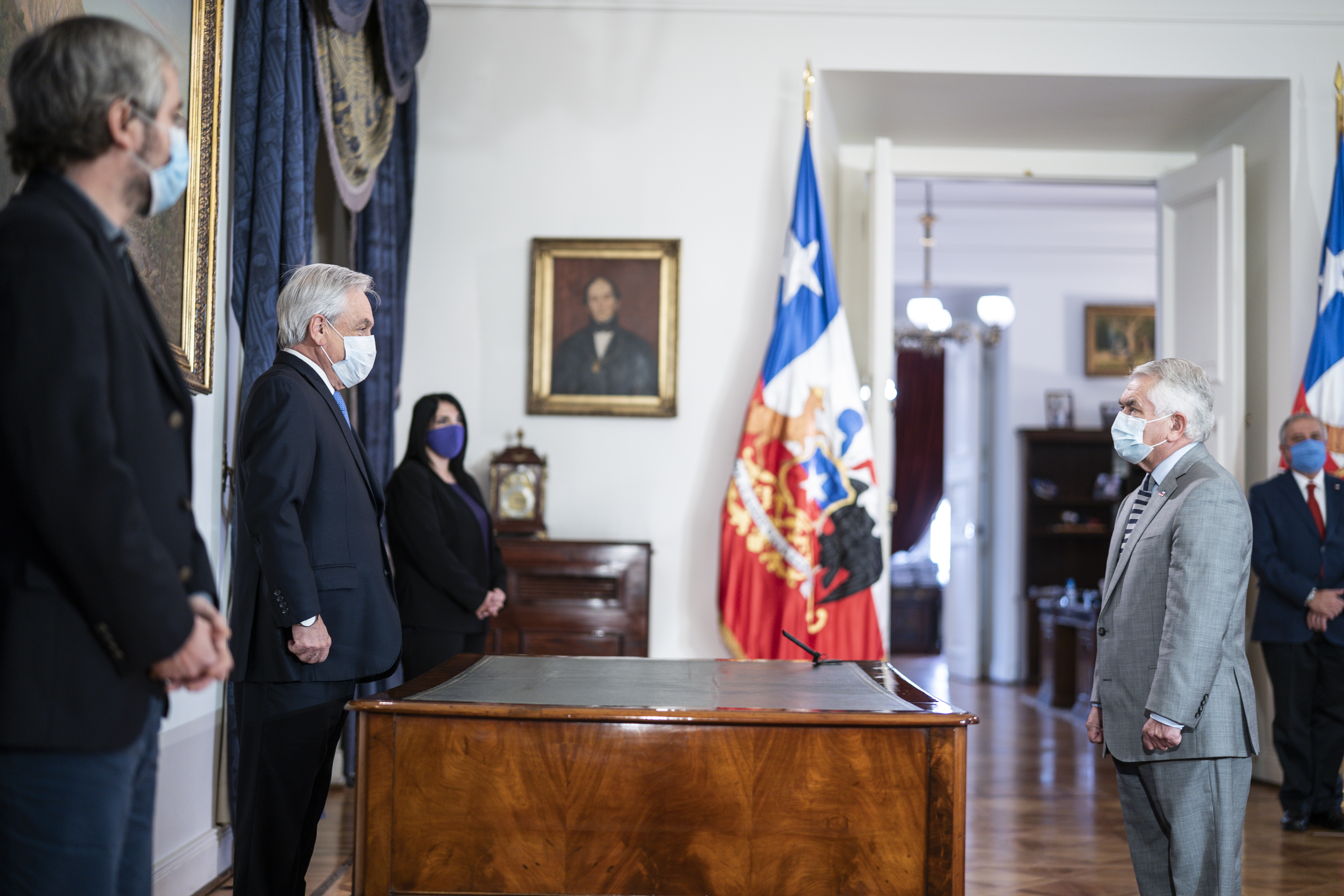 President Piñera appoints Enrique Paris as the new Minister of Health: "His first mission will be to lead the fight against the coronavirus in order to protect the health and life of our compatriots", Saturday, June 13, 2020